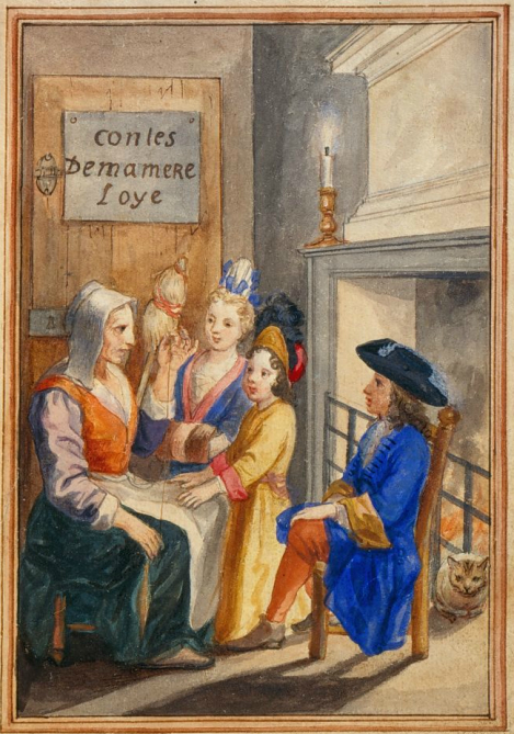 Gouache illustration in a manuscript of Charles Perrault's Contes de ma Mere l'Oye, dated 1695.